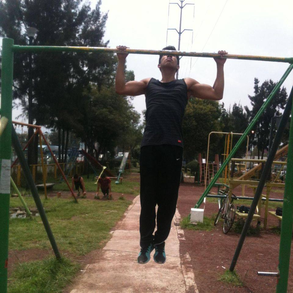 dominada en barra